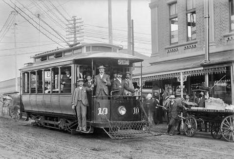 Perth tram no 10, at the opening of the William and Wellington Street tram services (cnr Wellington & Barrack Streets); EE Rogers, tramway company manager, to left of driver.